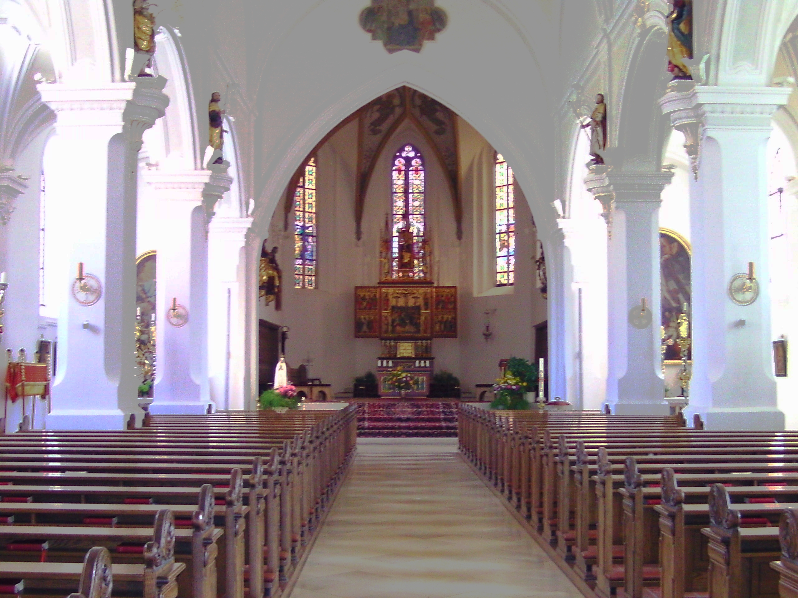 Church in Tirschenreuth